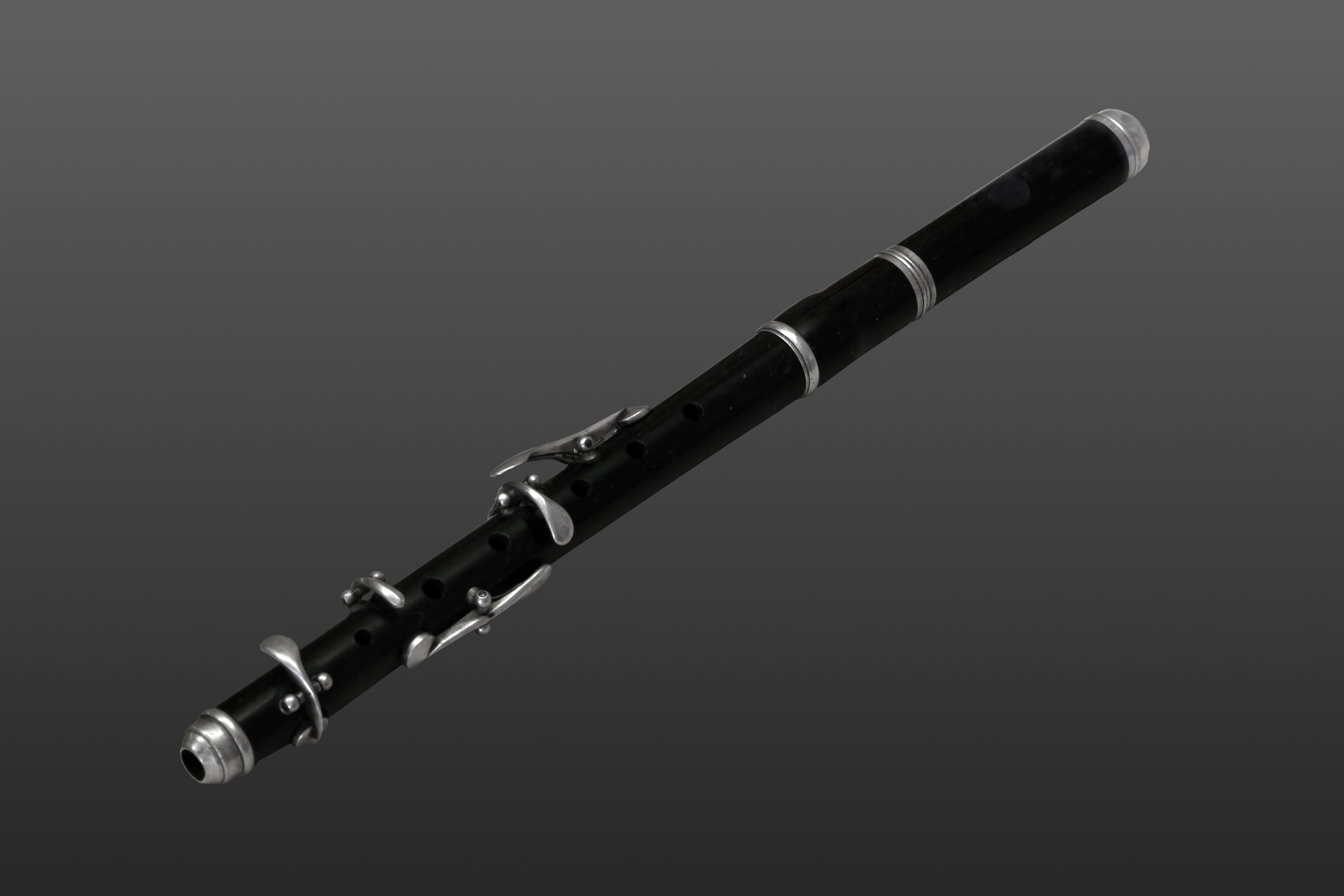 19th century fife. On display at the Musée historique de Lausanne.